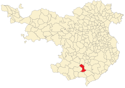 Sils